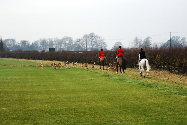 Belvoir Hunt and hounds. Skirting the edge of a field of turf grass adjacent to the A153.